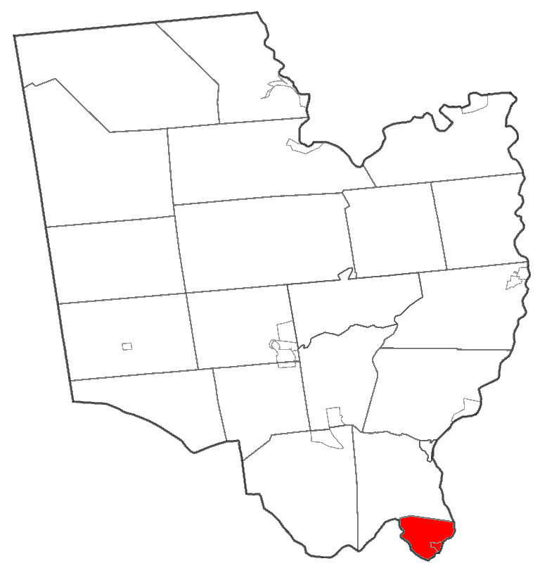 Map of Saratoga County highlighting Waterford